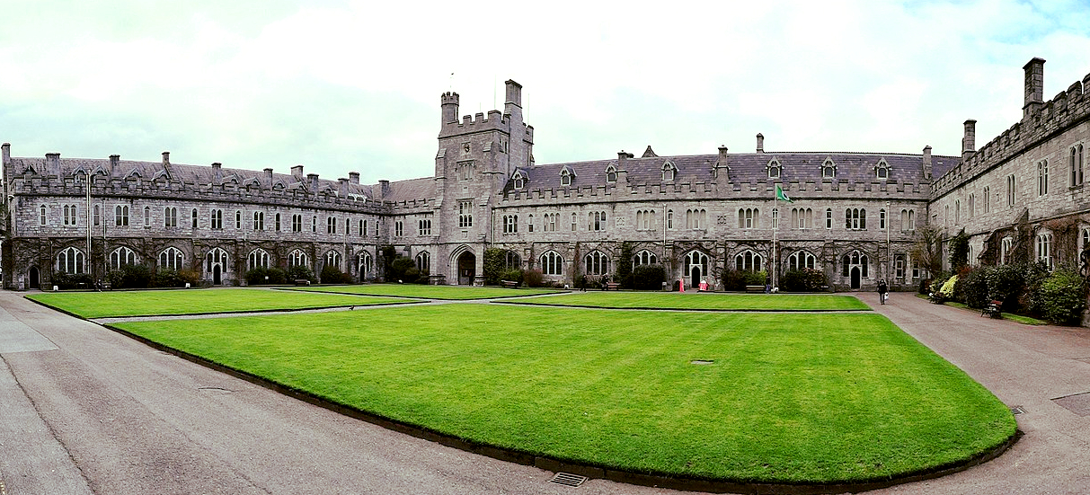 University College Cork quad